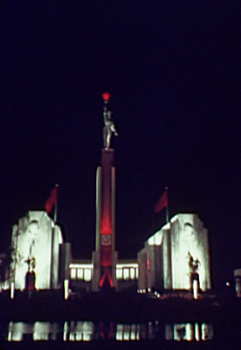 TITLE: World's Fair. Soviet Socialist Republics Building at night CALL NUMBER: LC-G605- 00485-1/2 [P&P] REPRODUCTION NUMBER: LC-G605-CT-00485-1/2 (color corrected film copy slide) RIGHTS INFORMATION: No known restrictions on publication. MEDIUM: 1 slide : color ; 2x2 in. CREATED/PUBLISHED: 1939 or 1940. CREATOR: Gottscho-Schleisner, Inc., photographer. RELATED NAMES: Iofan, Boris M., designer. Alabian, Karo S., designer. NOTES: Job and item titles devised. SUBJECTS: Exhibitions. United States--New York (State)--New York. FORMAT: Slides Color. PART OF: Gottscho-Schleisner Collection (Library of Congress) REPOSITORY: Library of Congress Prints and Photographs Division Washington, D.C. 20540 USA DIGITAL ID: (color corrected film copy slide) gsc 5a30881 CONTROL #: gsc1994028222/PP Source This image is available from the United States Library of Congress's Prints and Photographs division under the digital ID gsc.5a30881.This tag does not indicate the copyright status of the attached work. A normal copyright tag is still required. See Commons:Licensing for more information. This work is from the Gottscho-Schleisner collection at the Library of Congress. According to the library, there are no known copyright restrictions on the use of this work.Images in this collection have been placed in the public domain by the heirs of the photographers.